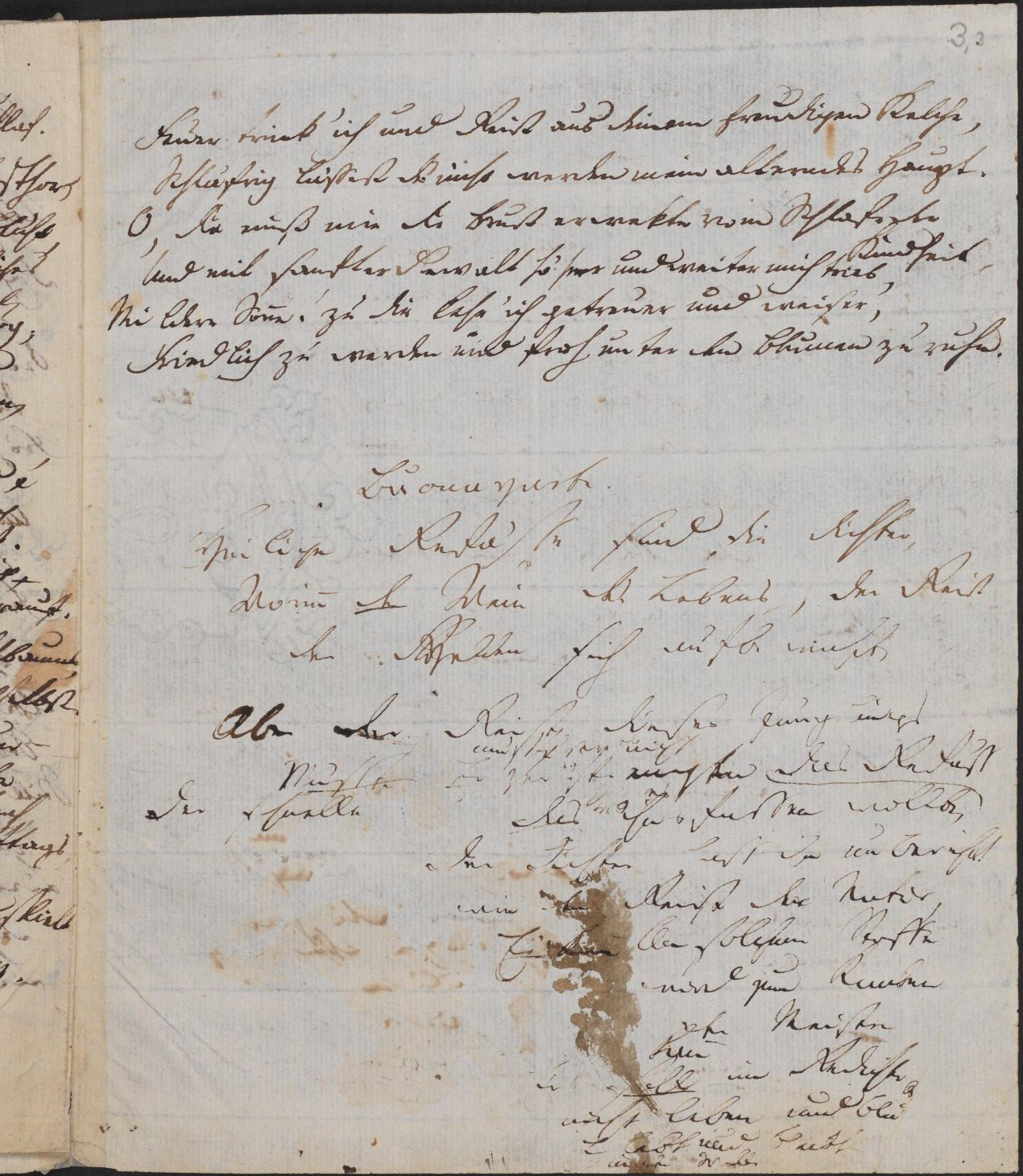 Manuscript by Friedrich Hölderlin "Der Wanderer", page 6